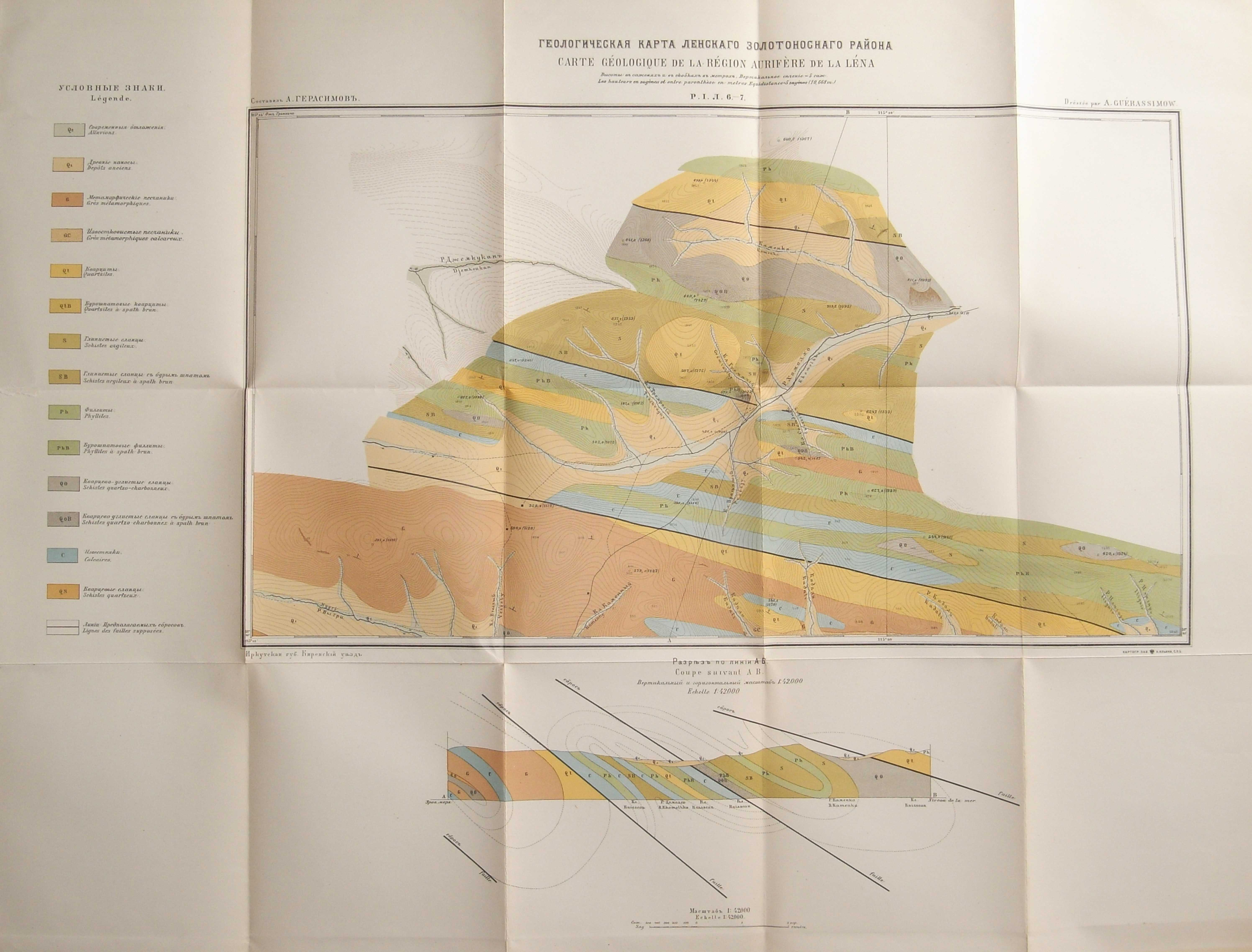 geological map of the gold fields from the Lena region (Gerasimov 1910)